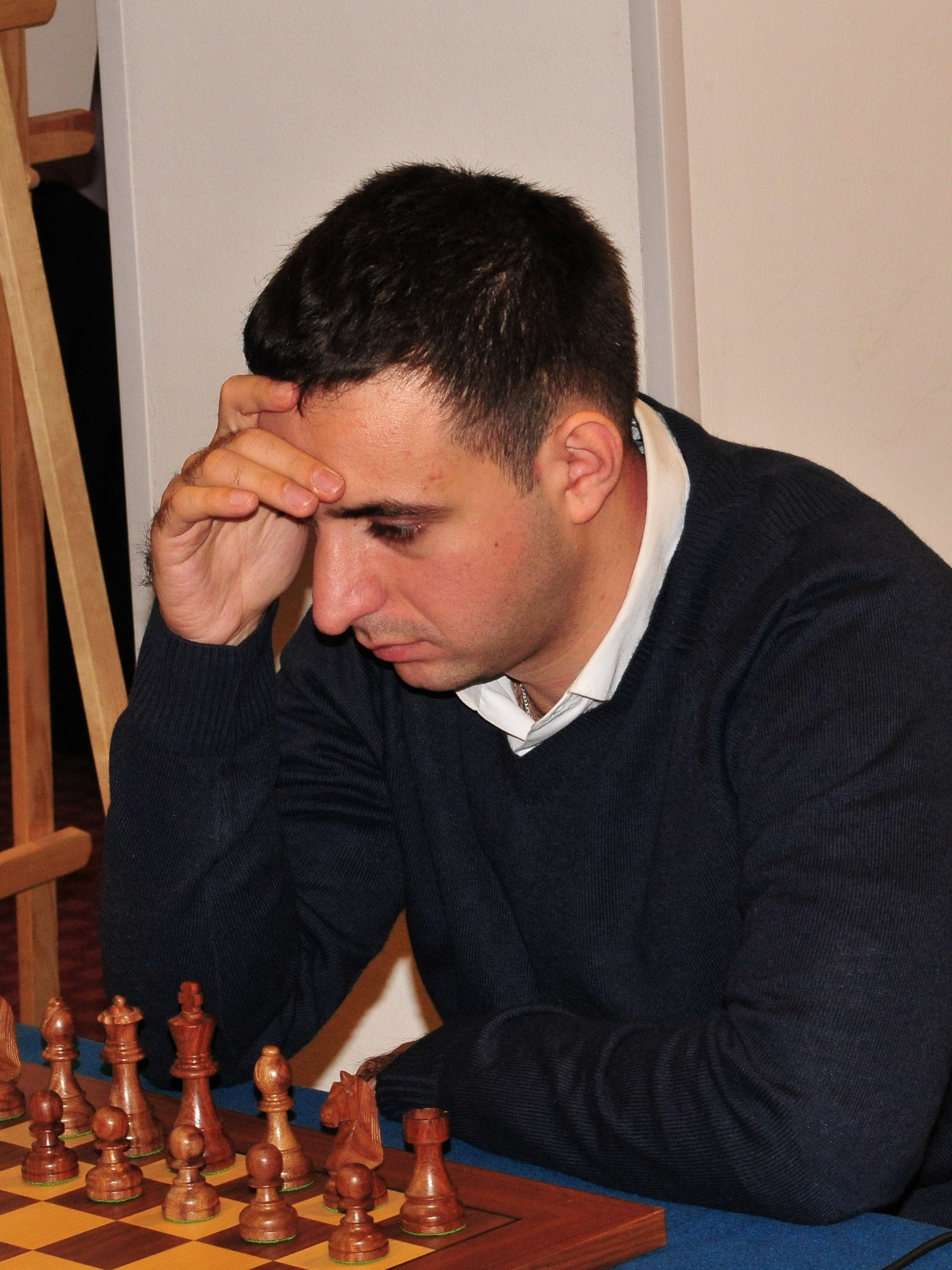 GM Merab Gagunashvili, European Chess Team Championship Warsaw 2013